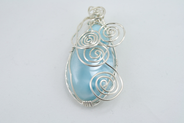 Larimar cabochon and sterling silver wire wrapped pendant